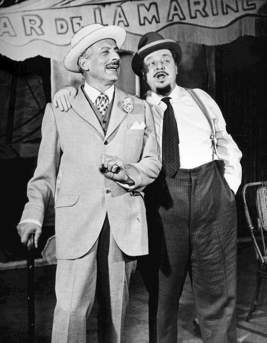 Photo of Ezio Pinza (left) and Walter Slezak from the Broadway production of Fanny.